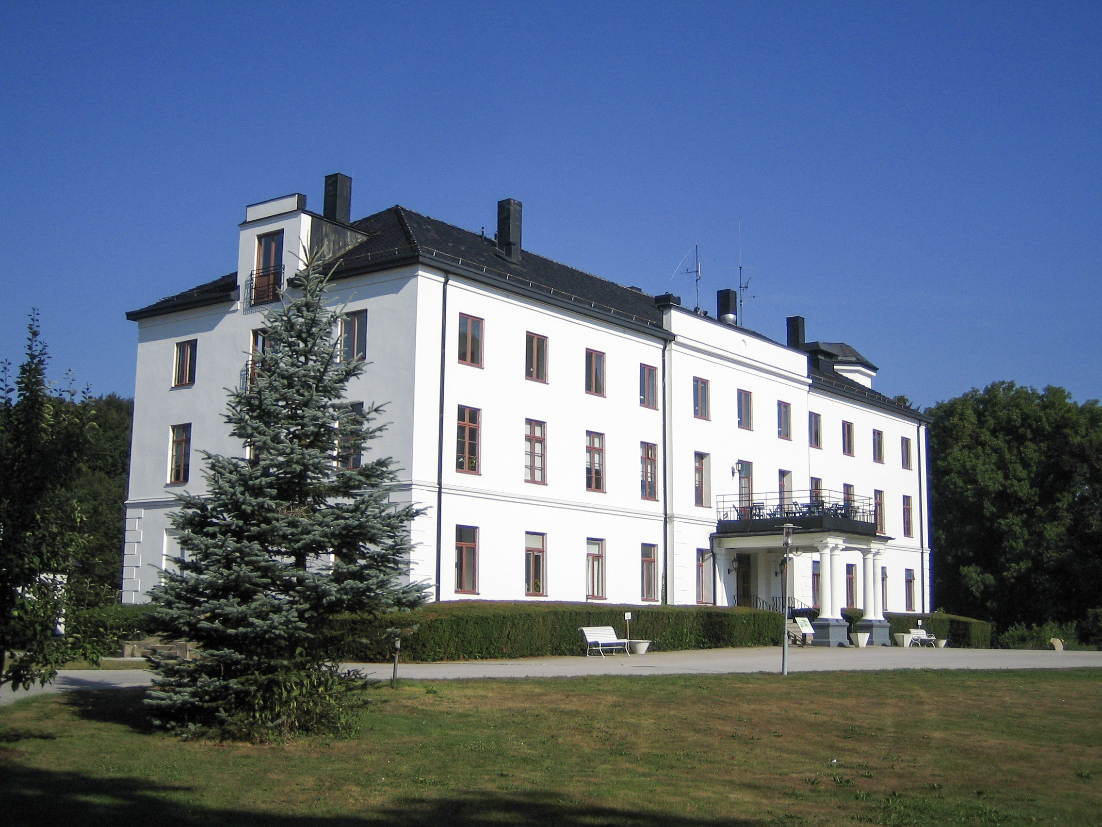 Picture of Rönneholm castle in Scania, Sweden.